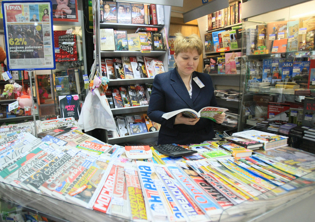 “Selling printed matter in Moscow”. Selling printed matter in Moscow.